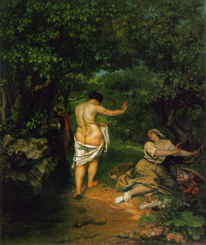 The Bathers